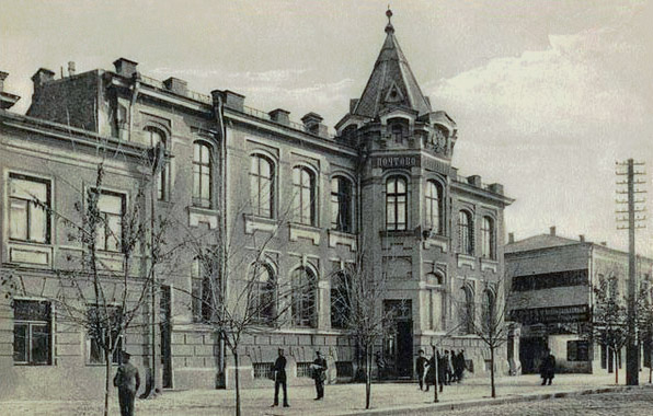 Ekaterinoslav